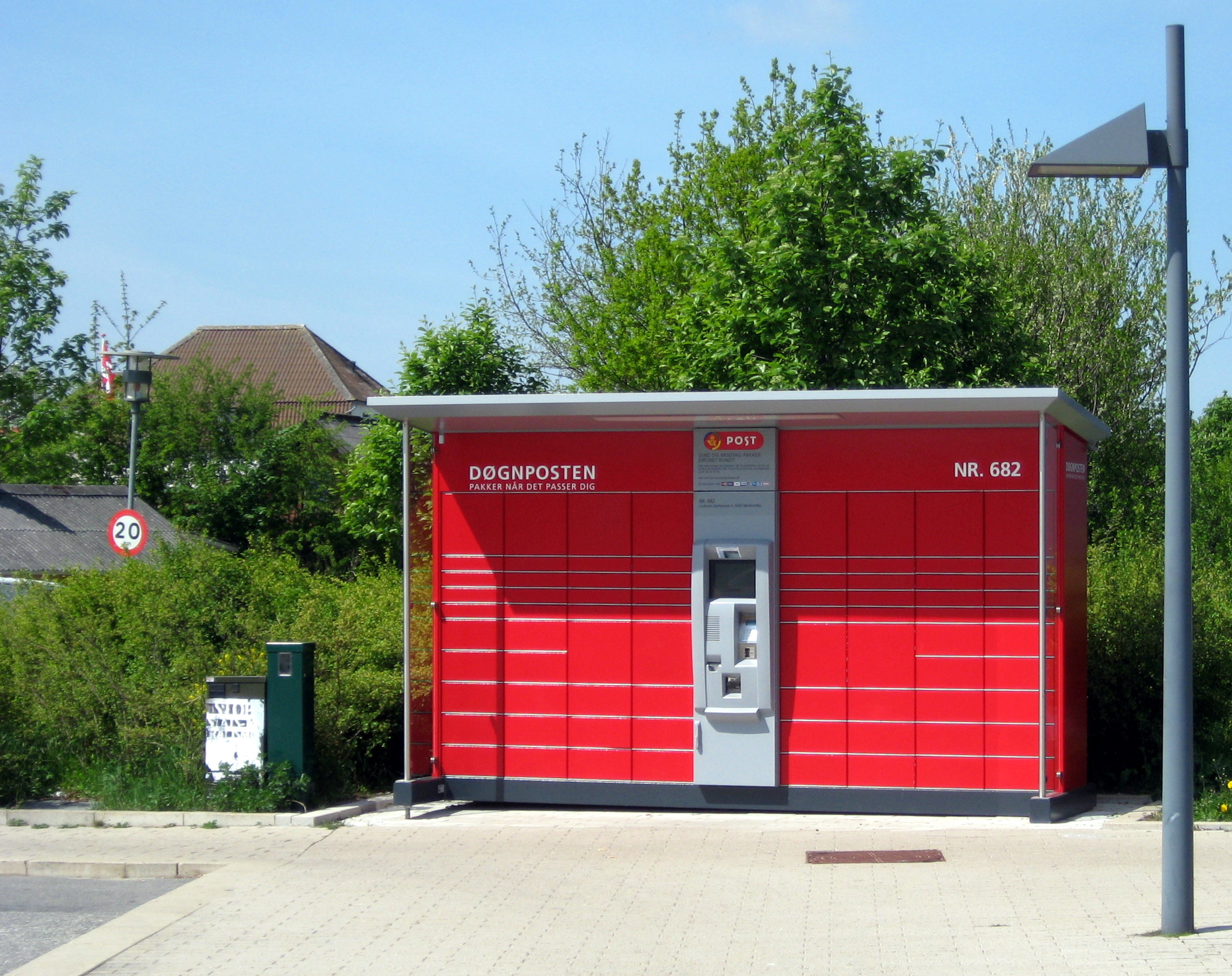 A packstation in Denmark